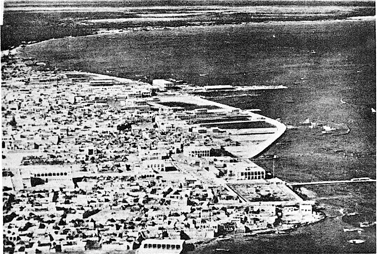 An aerial view of the capital of Bahrain, Manama, in 1936. Photograph taken by an anonymous British photographer for the British Intelligence Survey